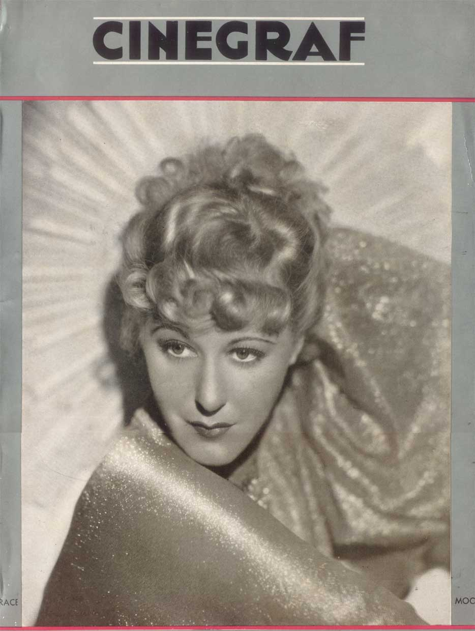 Grace Moore on the Argentinean Magazine cover.